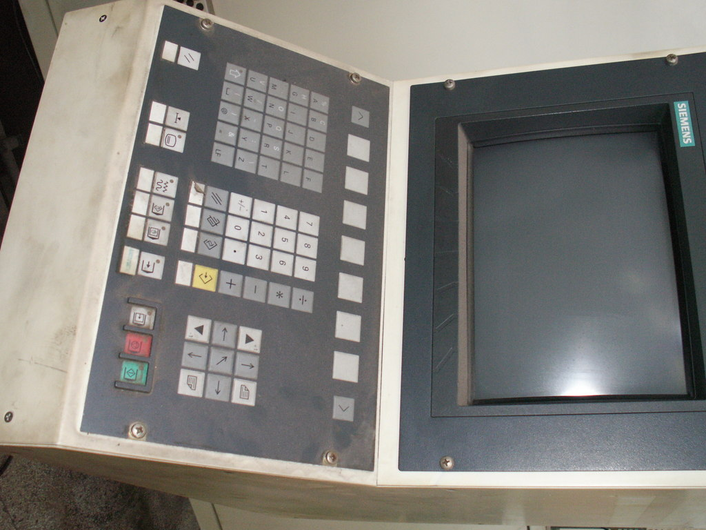 CNC panel